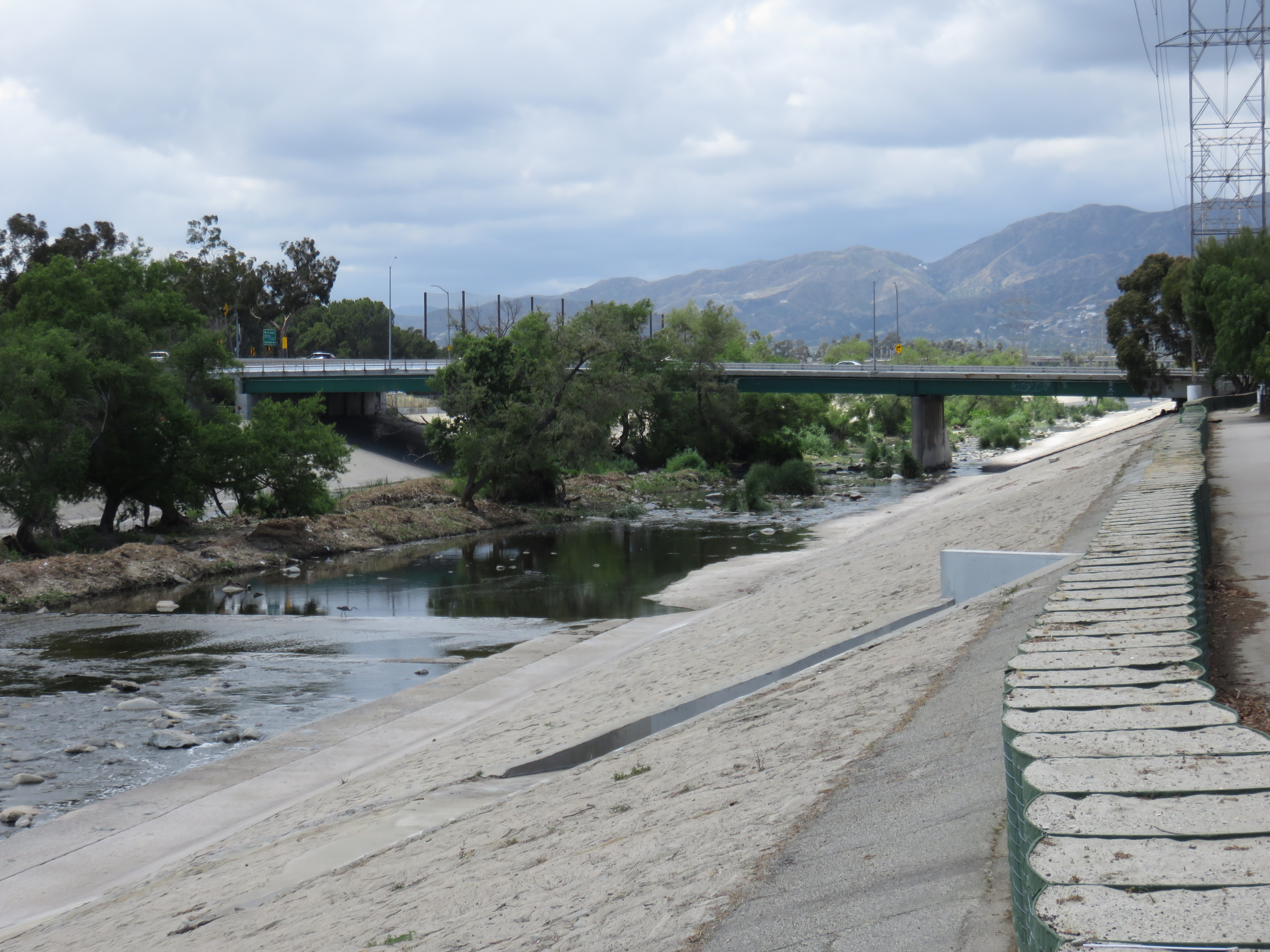 Colorado Street Bridge over the Los Angeles River in Atwater Village, Los Angeles, California in 2019